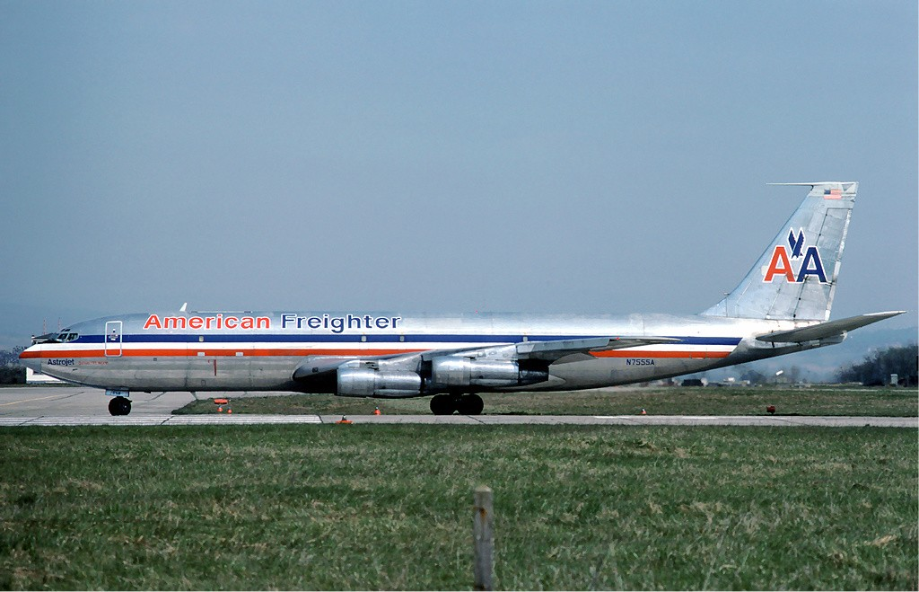 A Boeing 707 freighter of American Airlines at Basel Airport